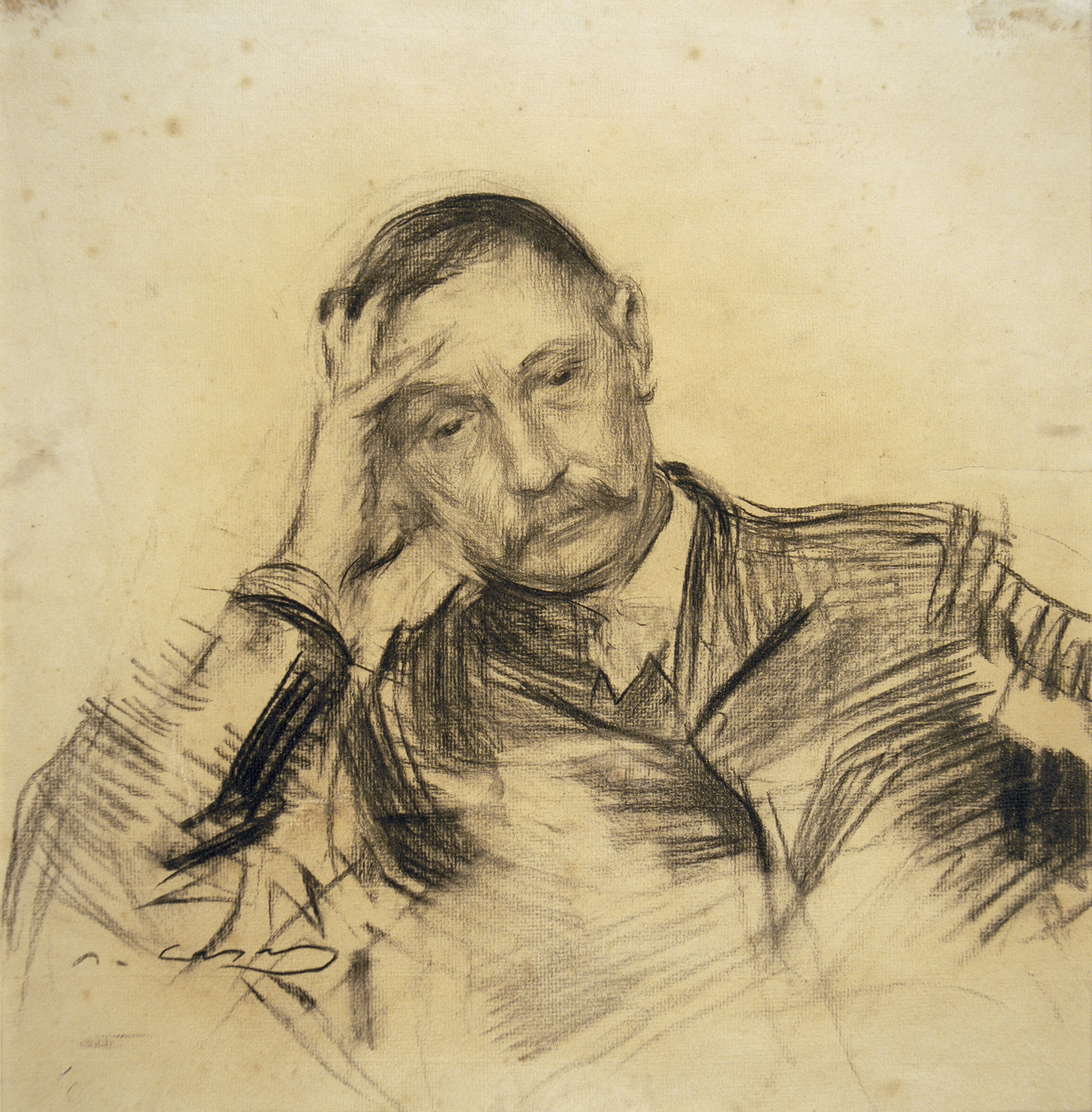 Portrait by Ramon Casas conserved at MNAC in Barcelona.